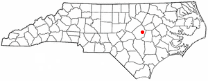 Category:North Carolina Dot Maps